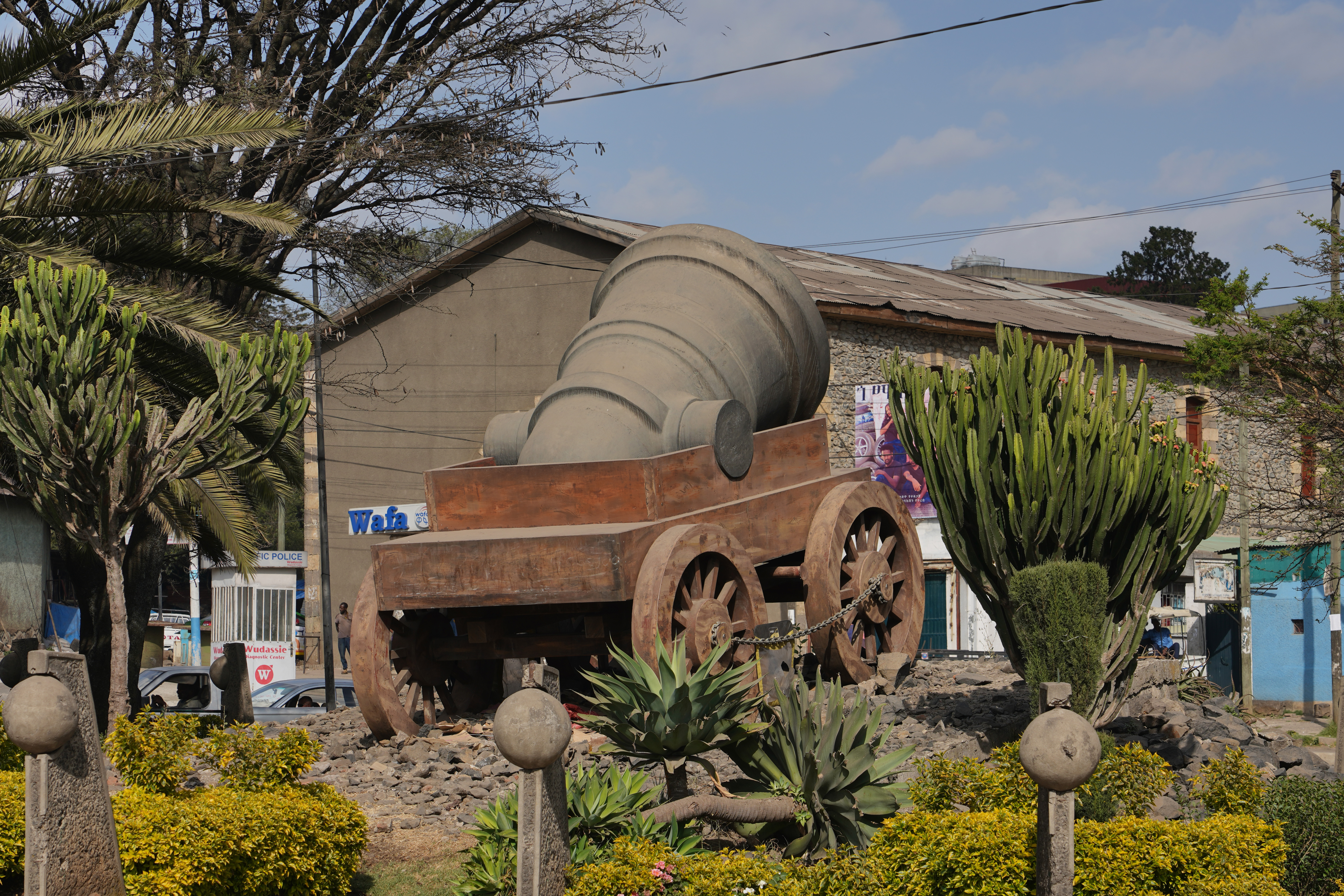 Tewodros Square in Addis Ababa, Ethiopia